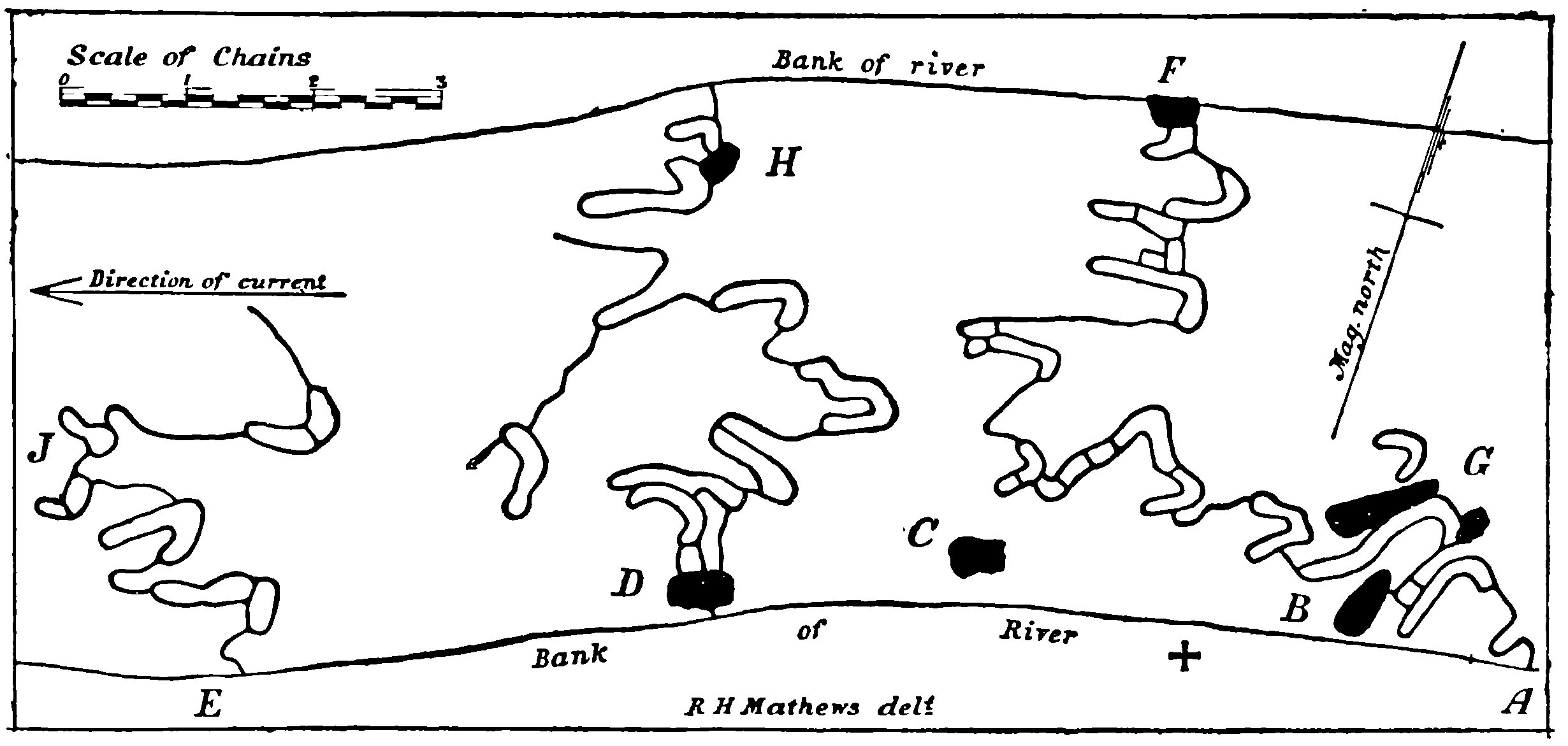 Plan of the Ngūnnhu or Native Fish Traps in the Darling River at Brewarrina.